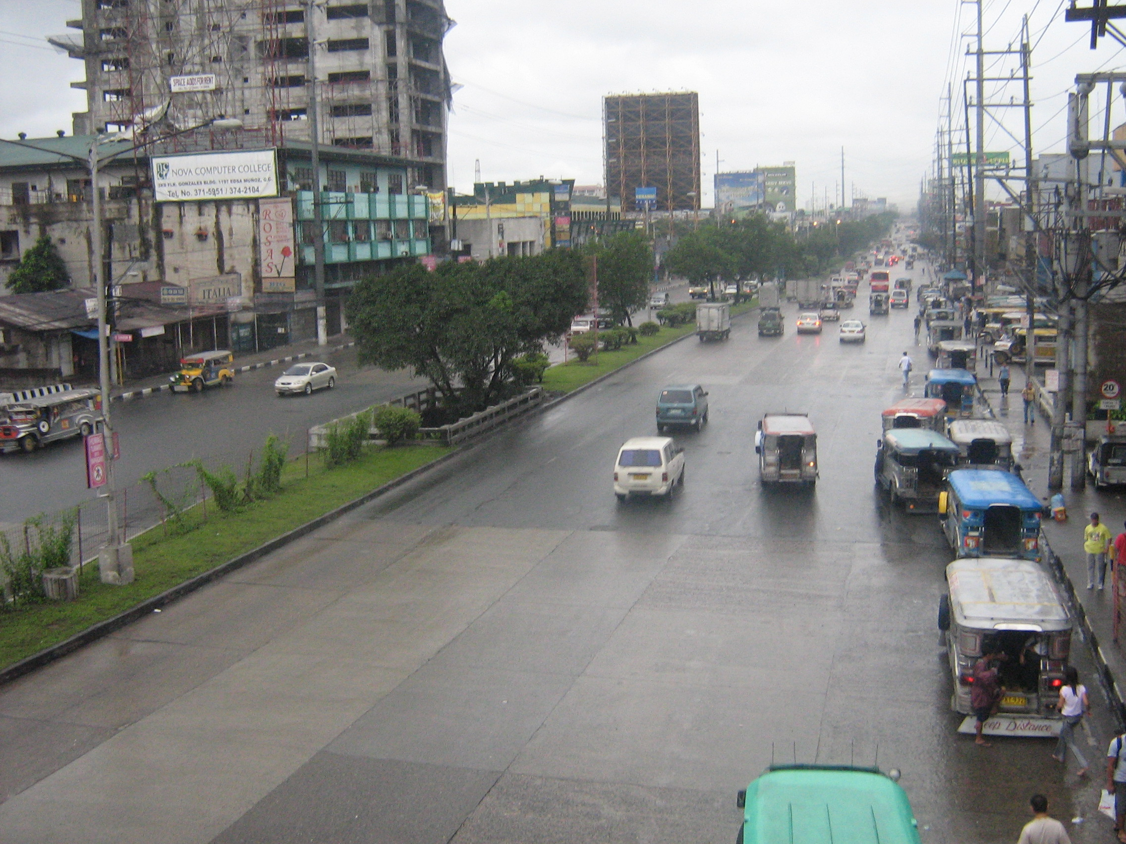 Epifanio delos Santos Avenue (EDSA), NorthWest-bound to Balintawak. Photo taken by Exec8 September 29, 2007.